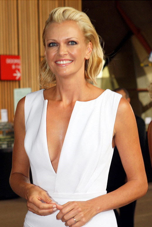 Sarah Murdoch at the Australia's Next Top Model 2011.